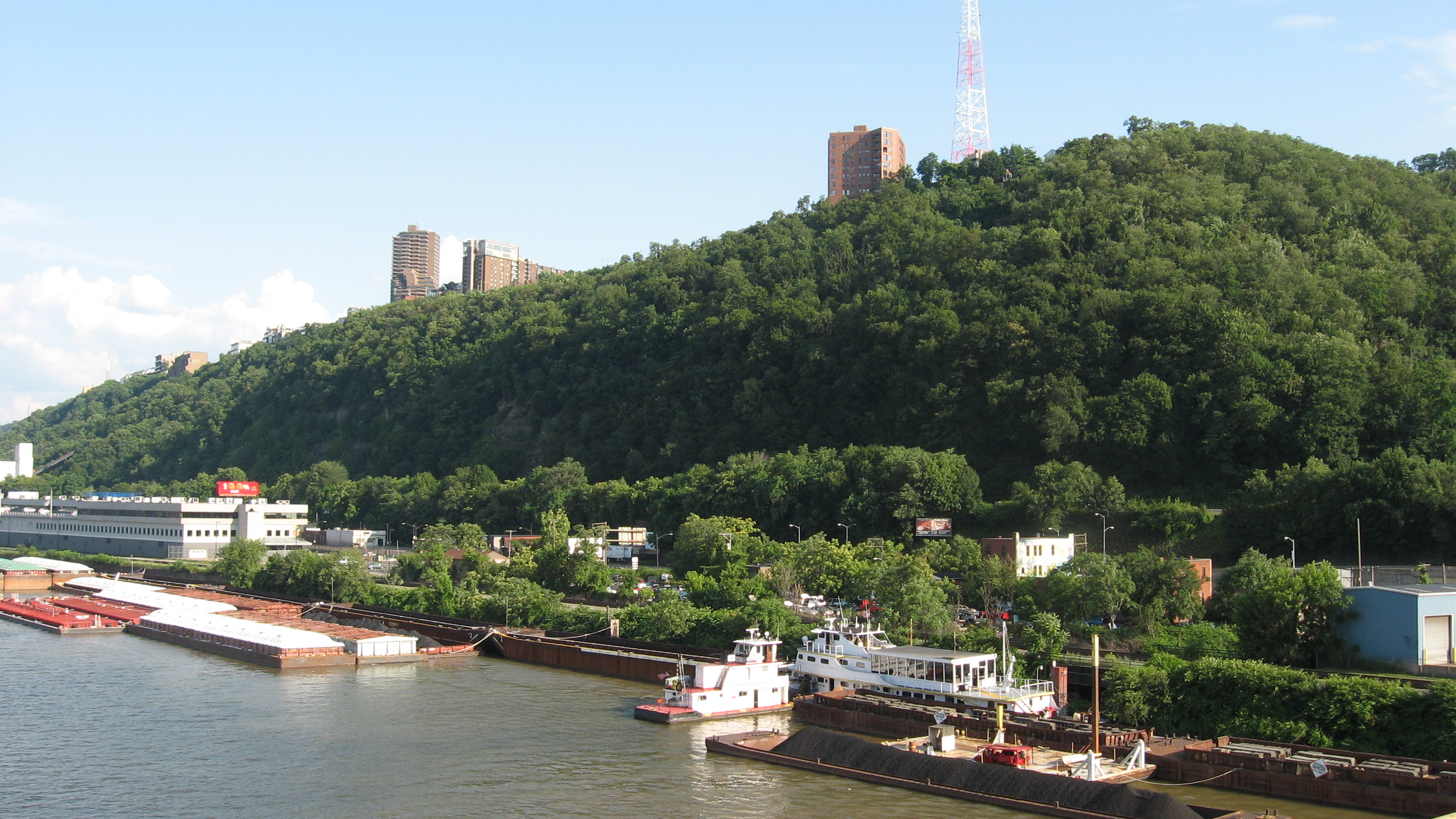 Mount Washington, as viewed from the West End Bridge.40°26′10.1″N 80°0′44.3″W / 40.436139°N 80.012306°W